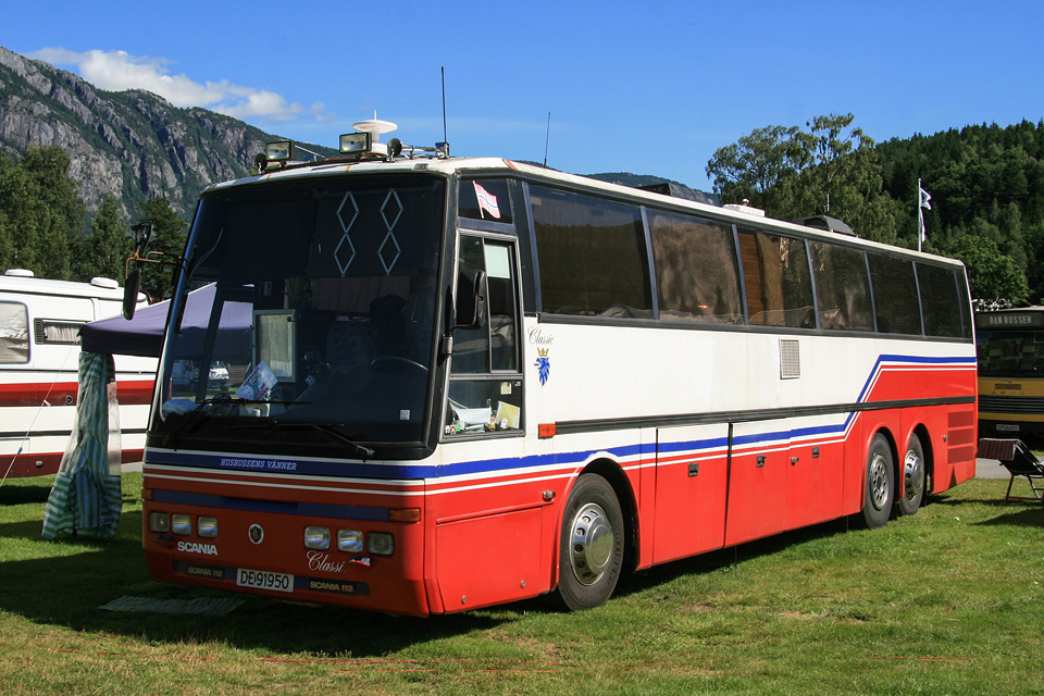 One of the original Haukeliekspressen coaches, later converted to a mobile home.